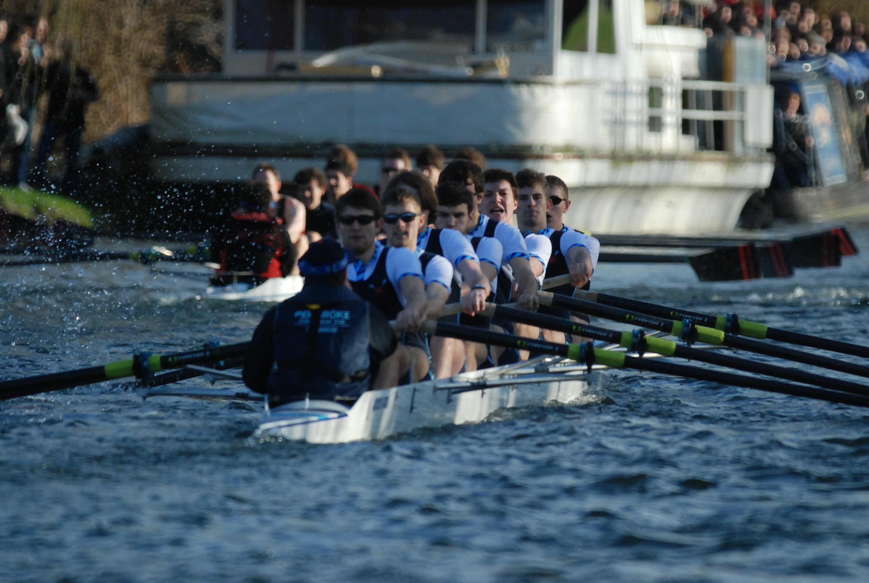 Pembroke M1 chasing Jesus, Lent bumps 2012. But they were caught but Peterhouse, alas for them.